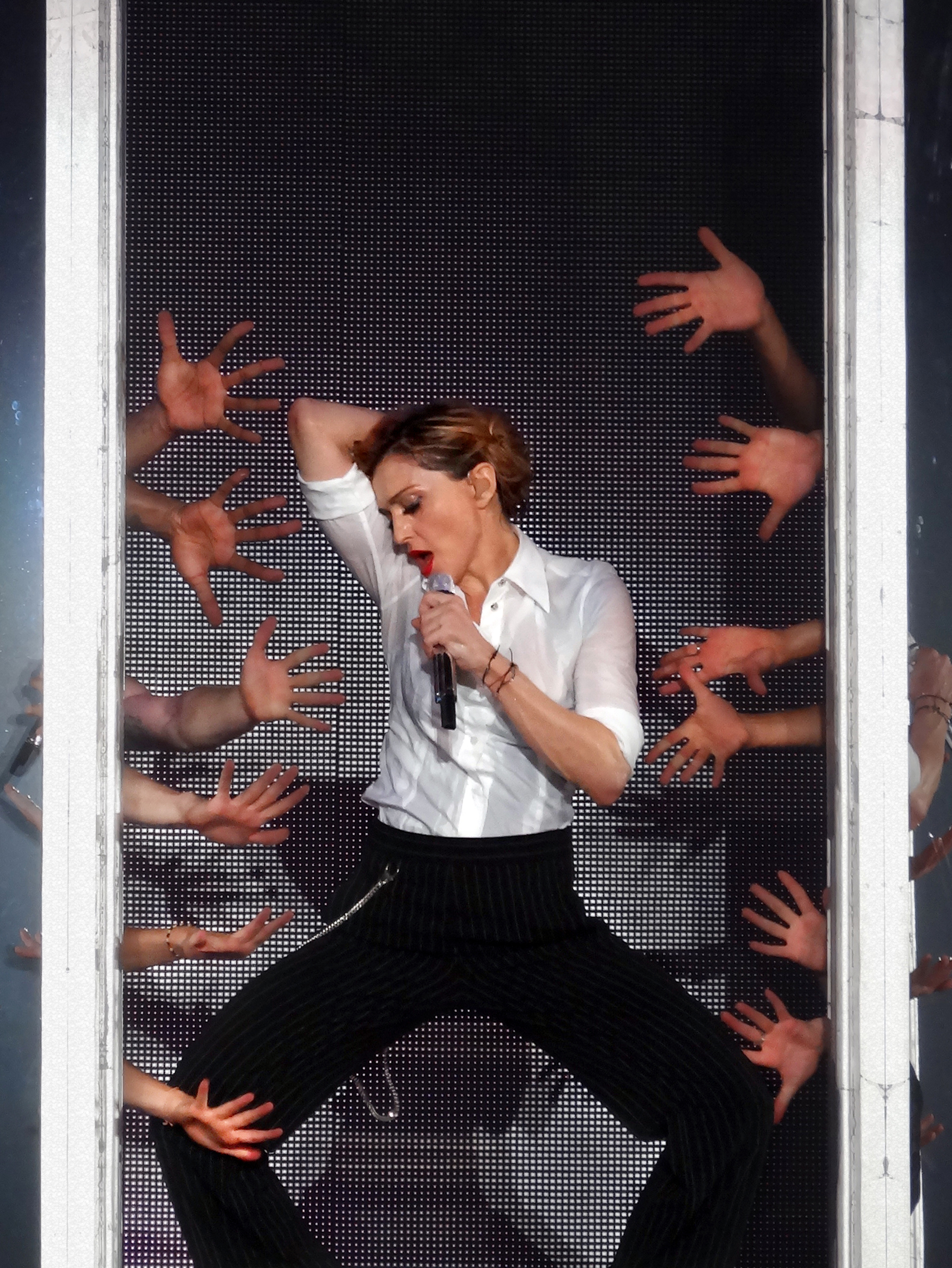 Madonna during her concert in Nice as part of her MDNA Tour on August 21, 2012.